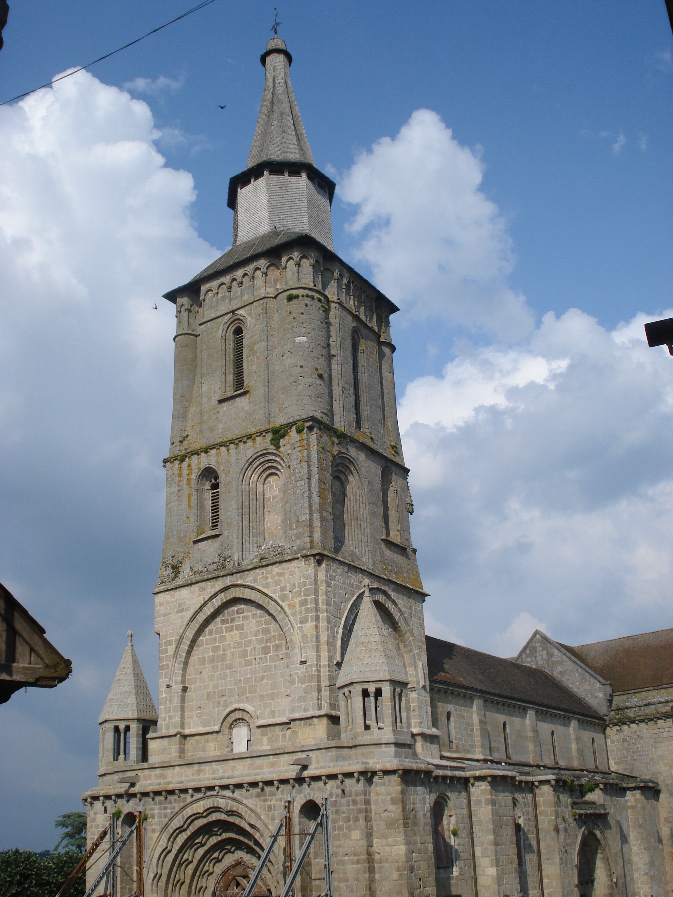 La Souterraine (Creuse, Fr), churchtower